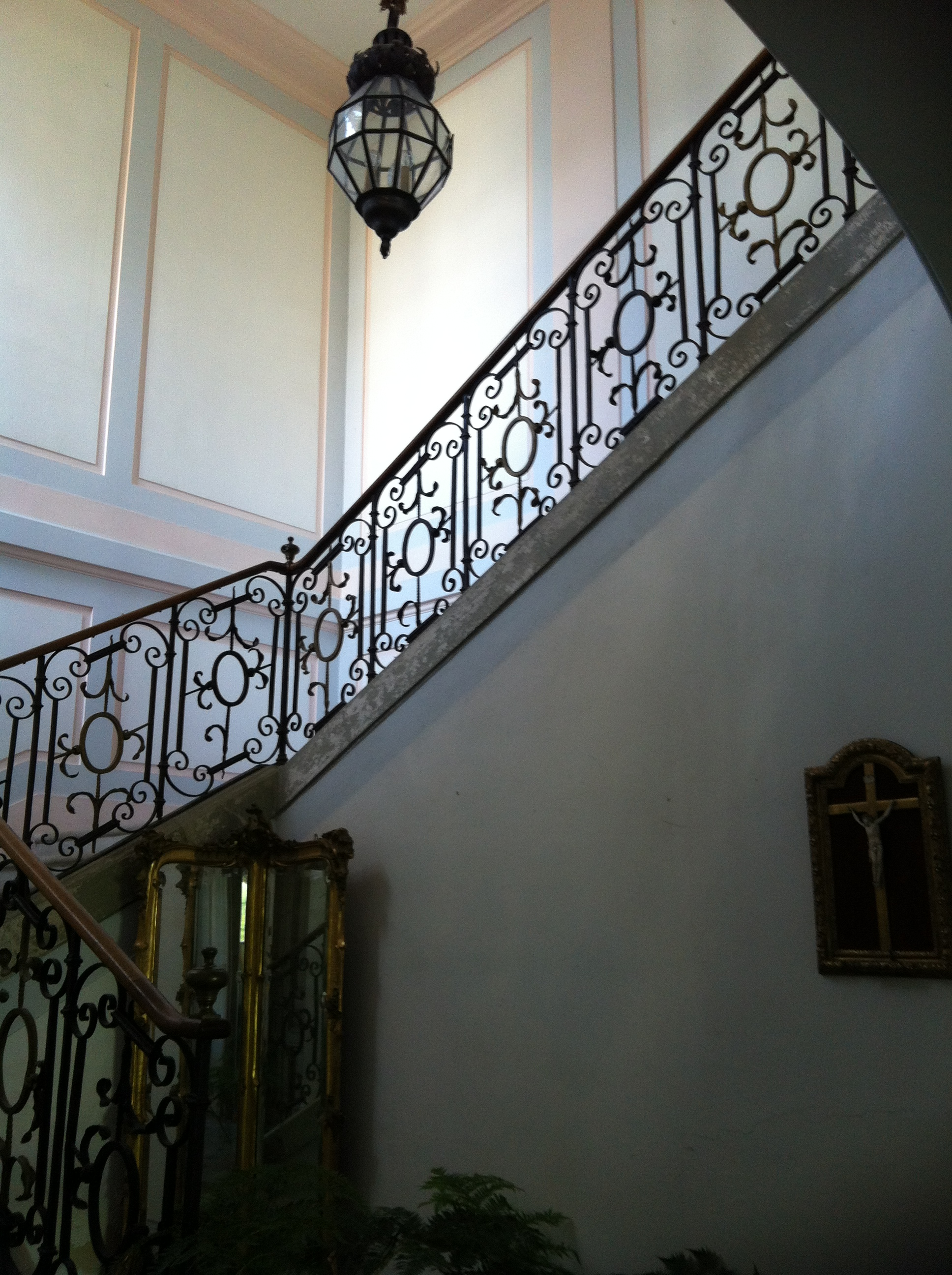 Vue du Grand escalier depuis le vestibule